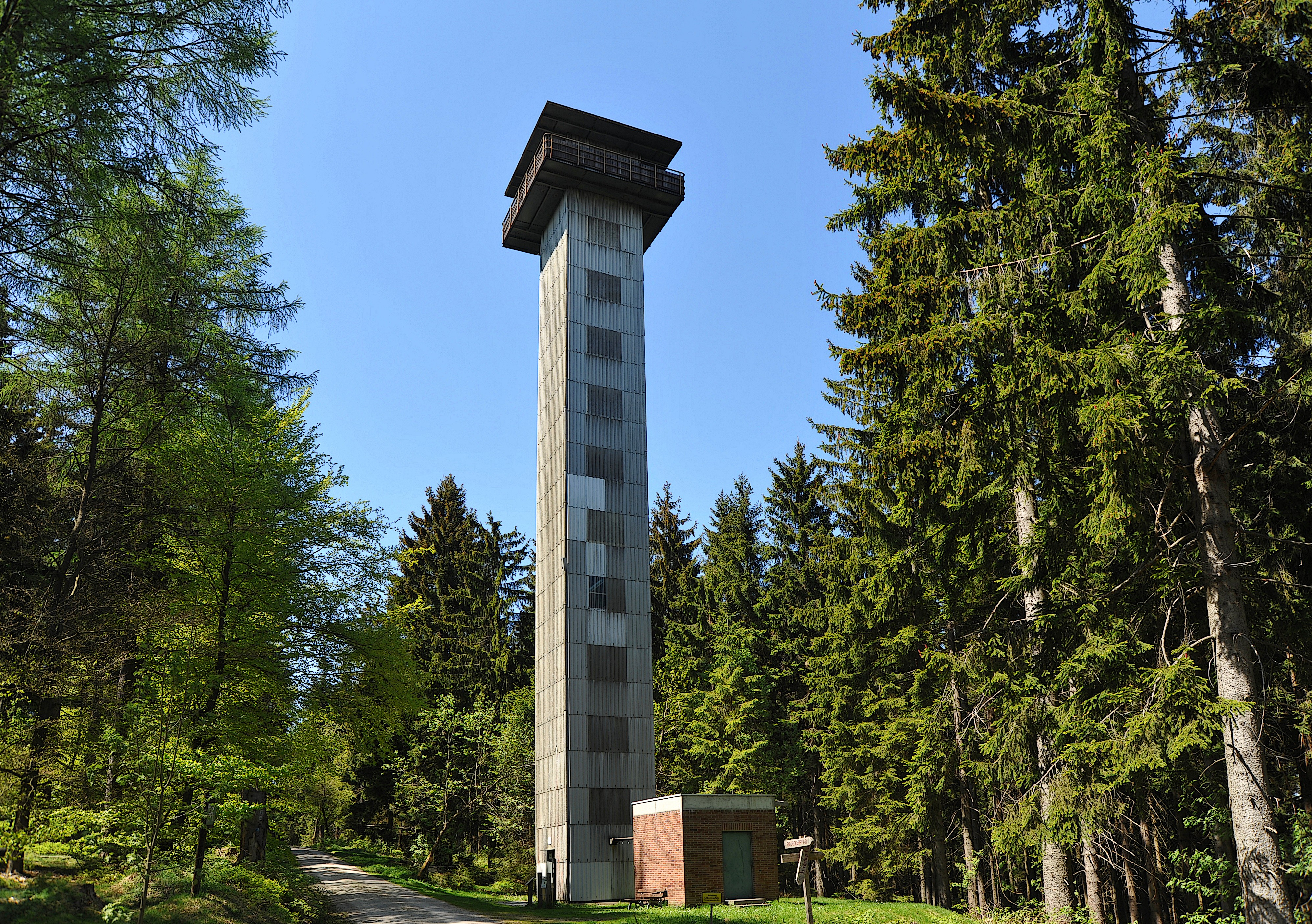 Klausenturm, look-out tower Germany, Bavaria, Fichtelgebirge